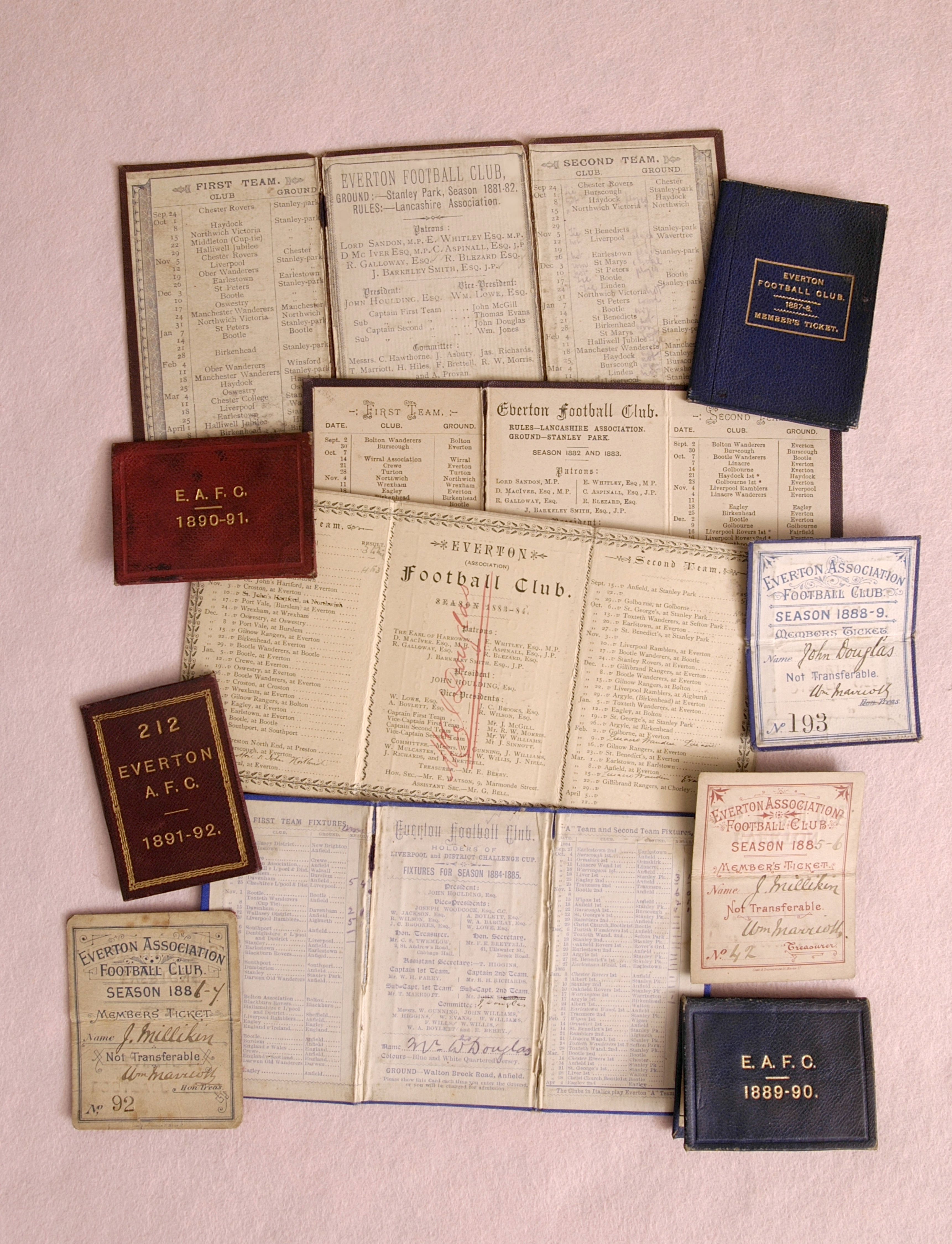 A selection of season tickets for Everton F.C. from the 1880's and 1890's